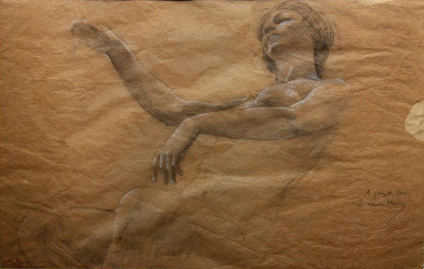 Giacinta Caira by Luc Oliver Merson